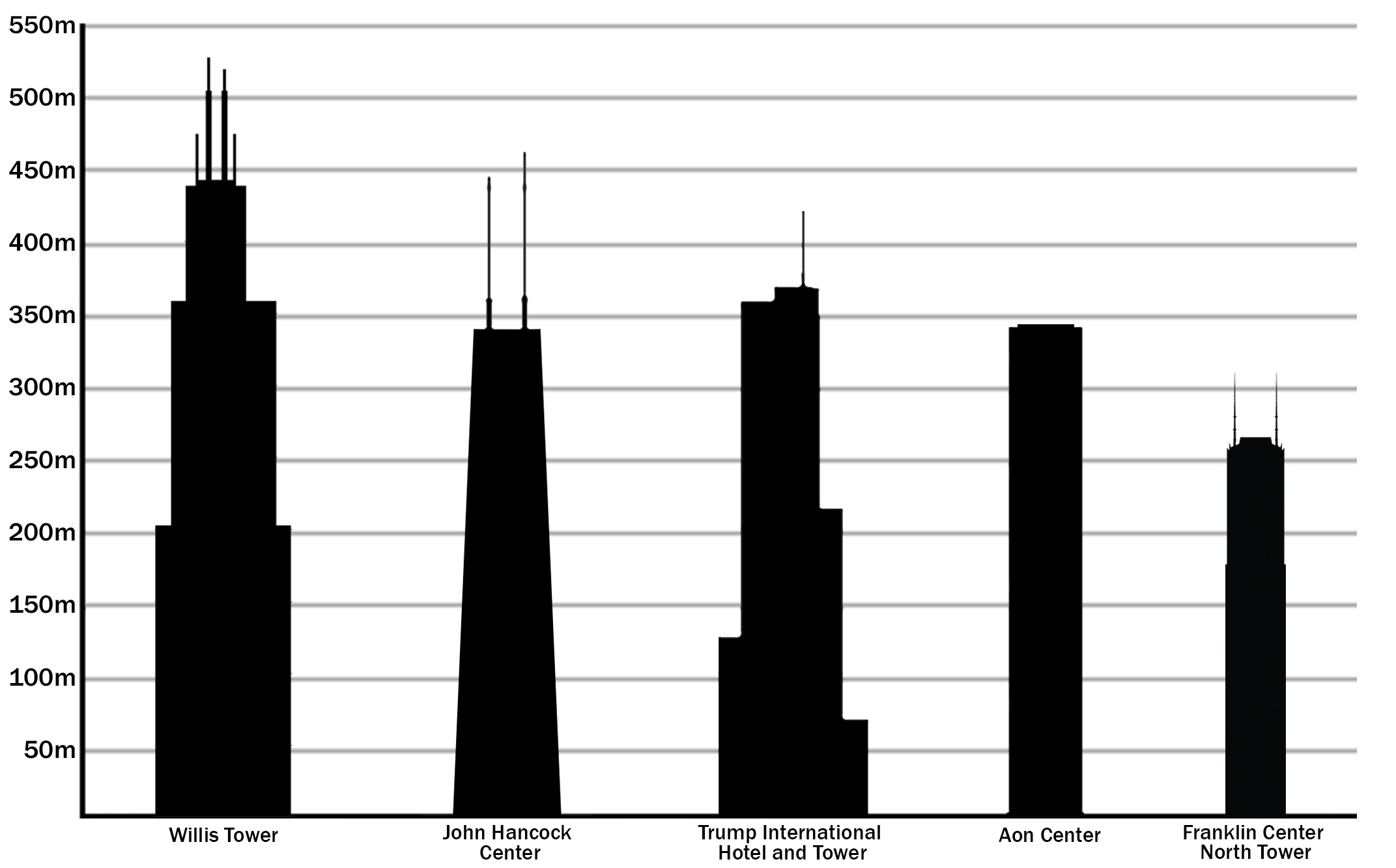 Tallest buildings in Chicago by pinnacle height; Used data from